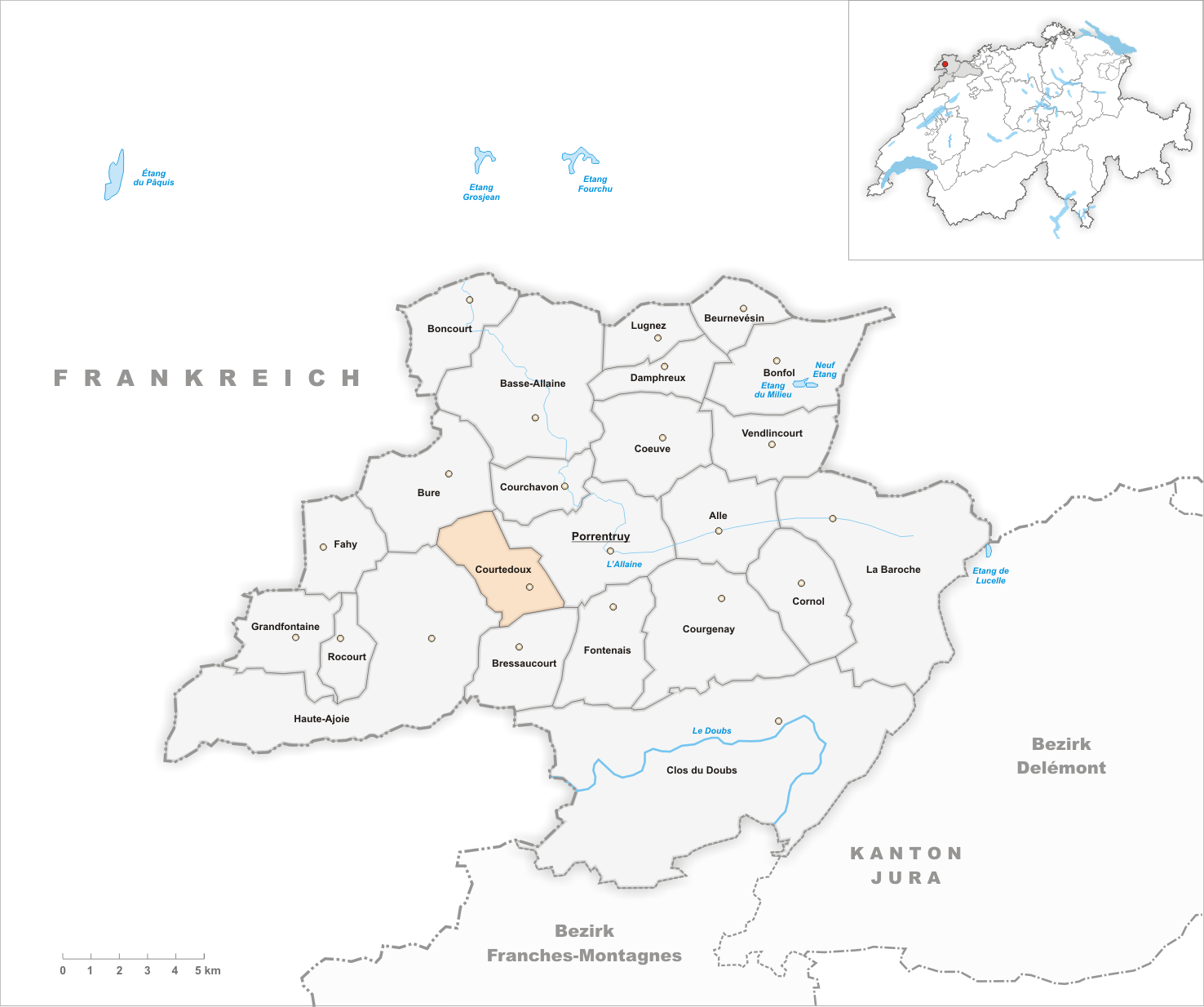 Municipality Courtedoux